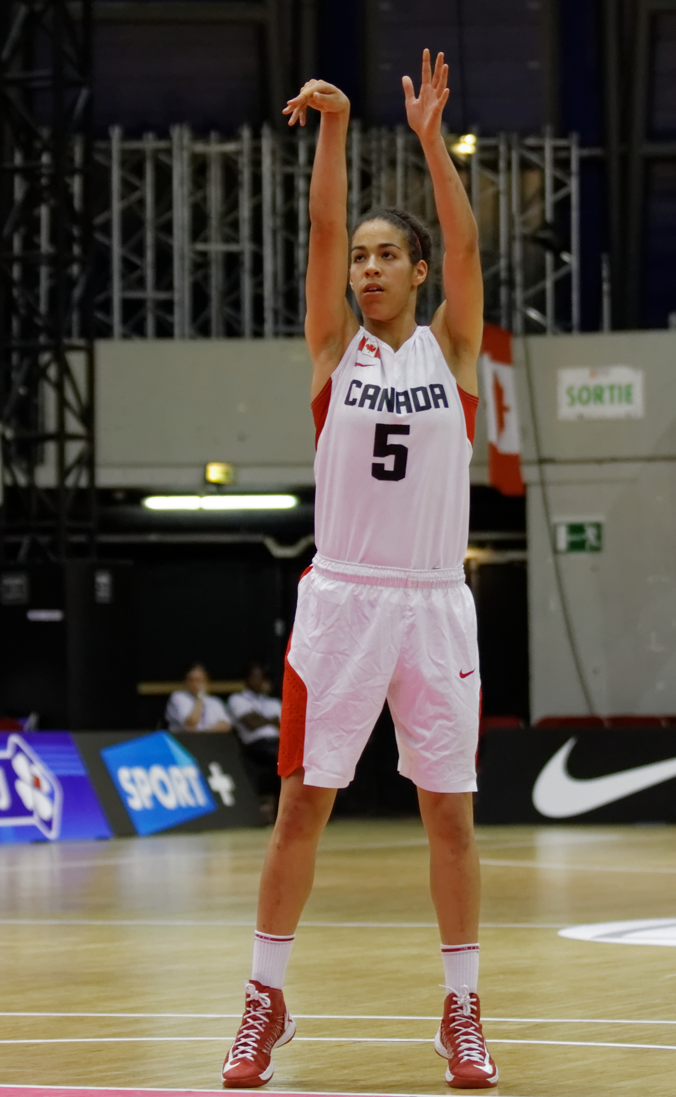 EuroEssonne, France - Canada, 7 June 2013.